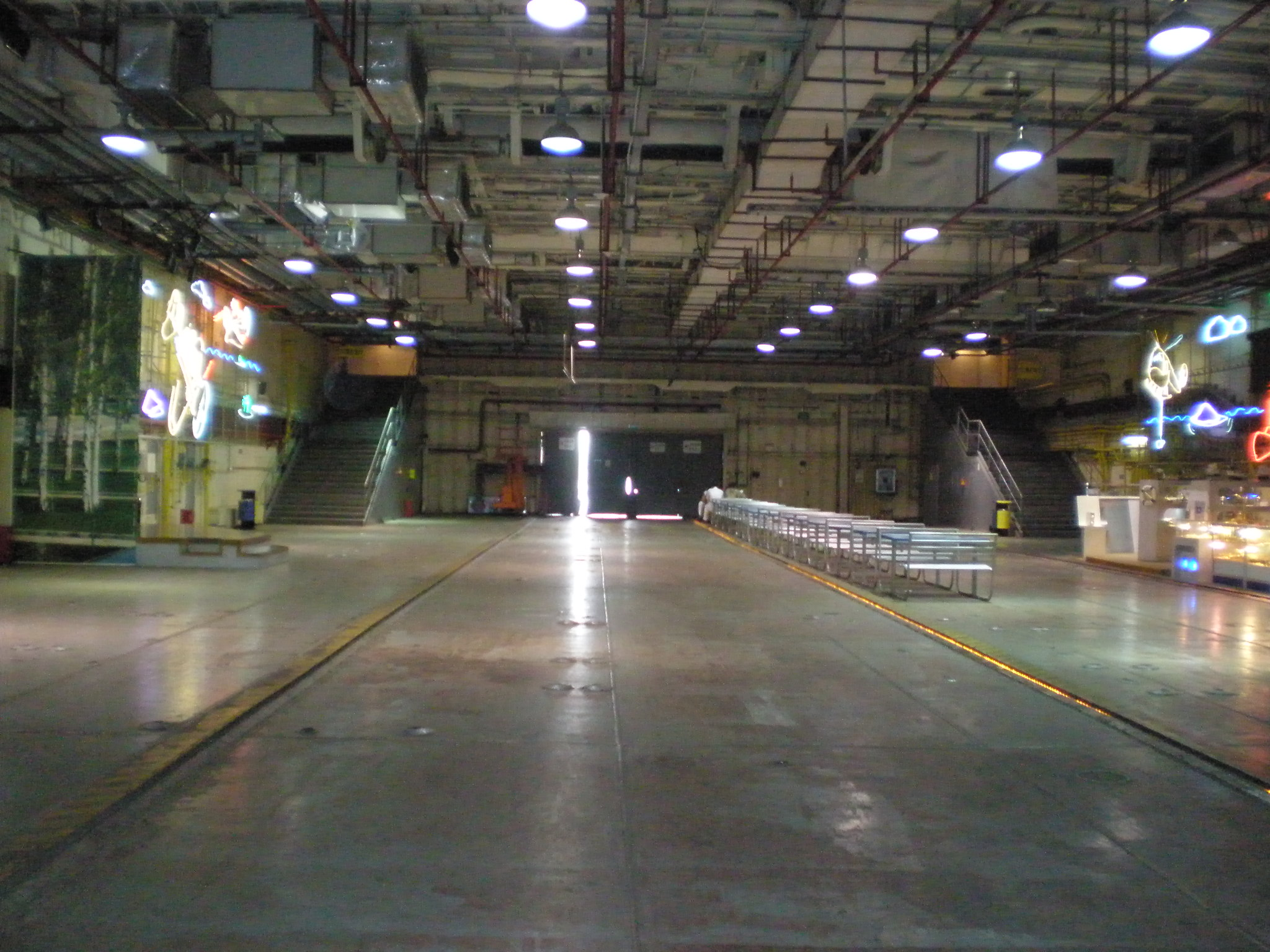 The aft section of the hangar deck of the aircraft carrier Minsk, located at the Minsk World theme park in Shenzhen, PRC.